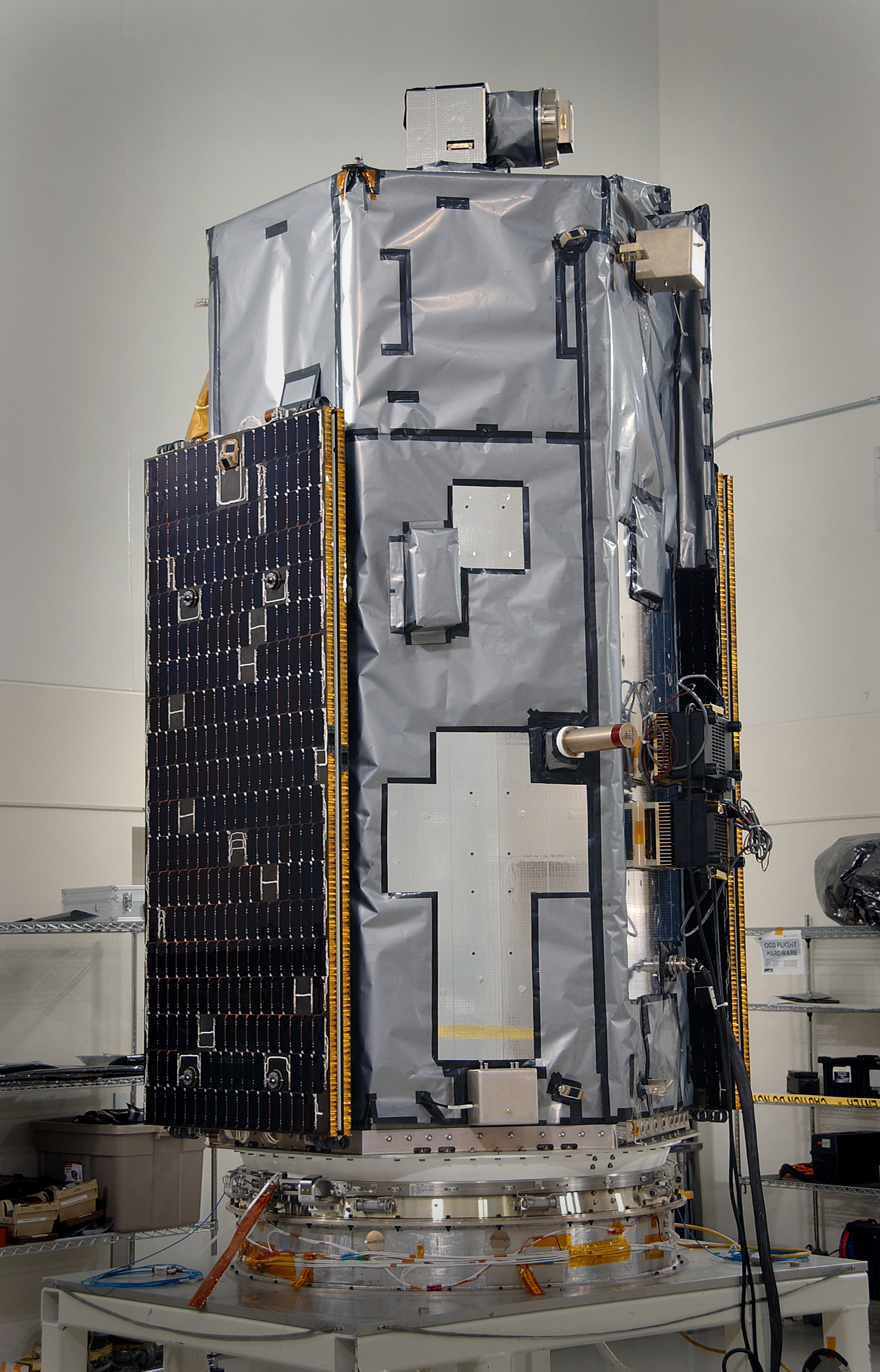 The “Orbiting Carbon Observatory” in a clean room at Vandenberg AFB.